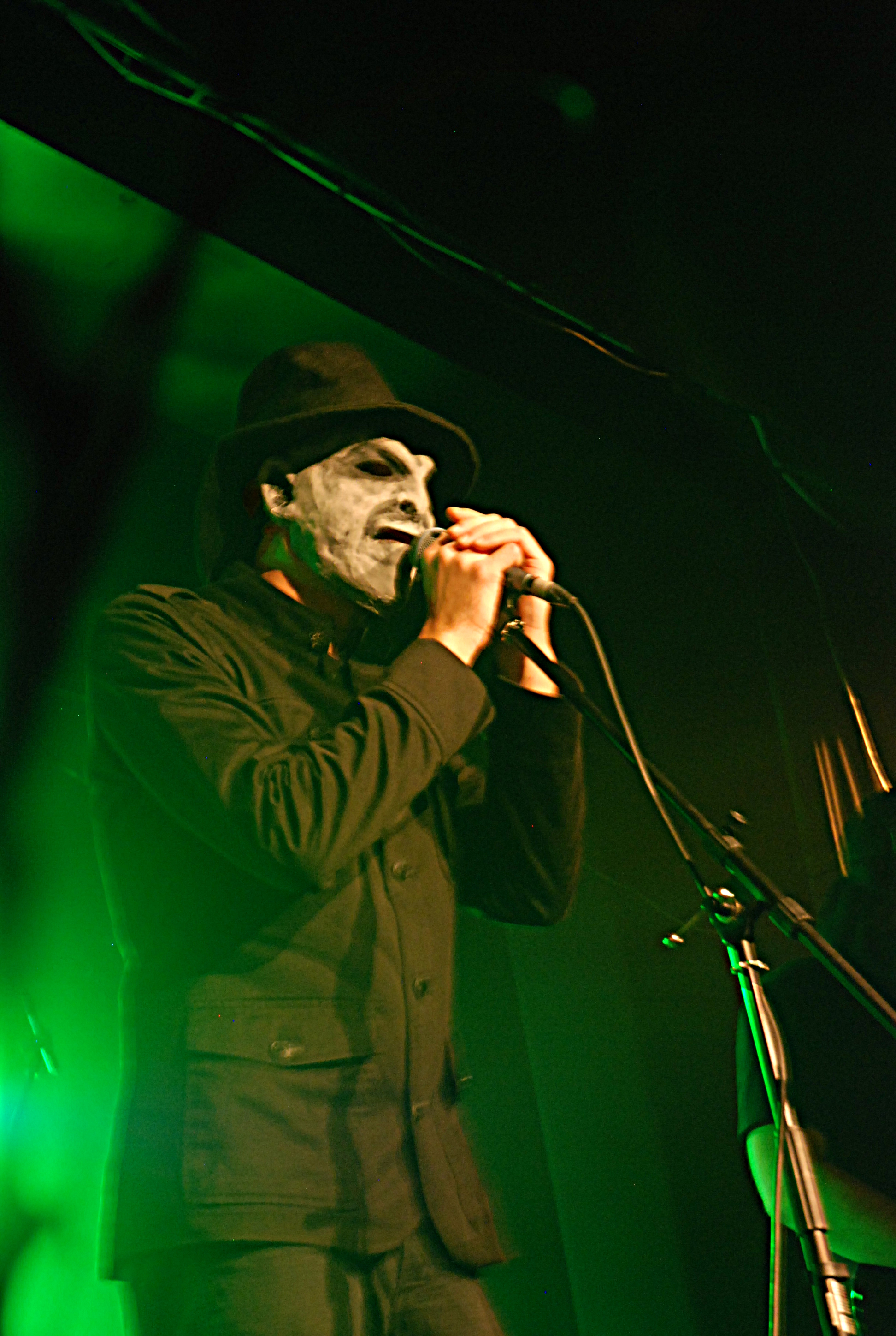 Art Abscon appearing live at the Raunacht-Festival on New Year's Eve 2011 in Leipzig.